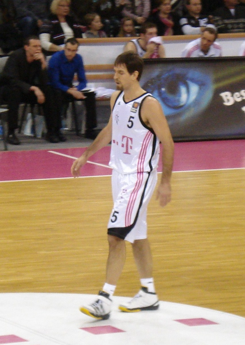 Professional Basketball Player